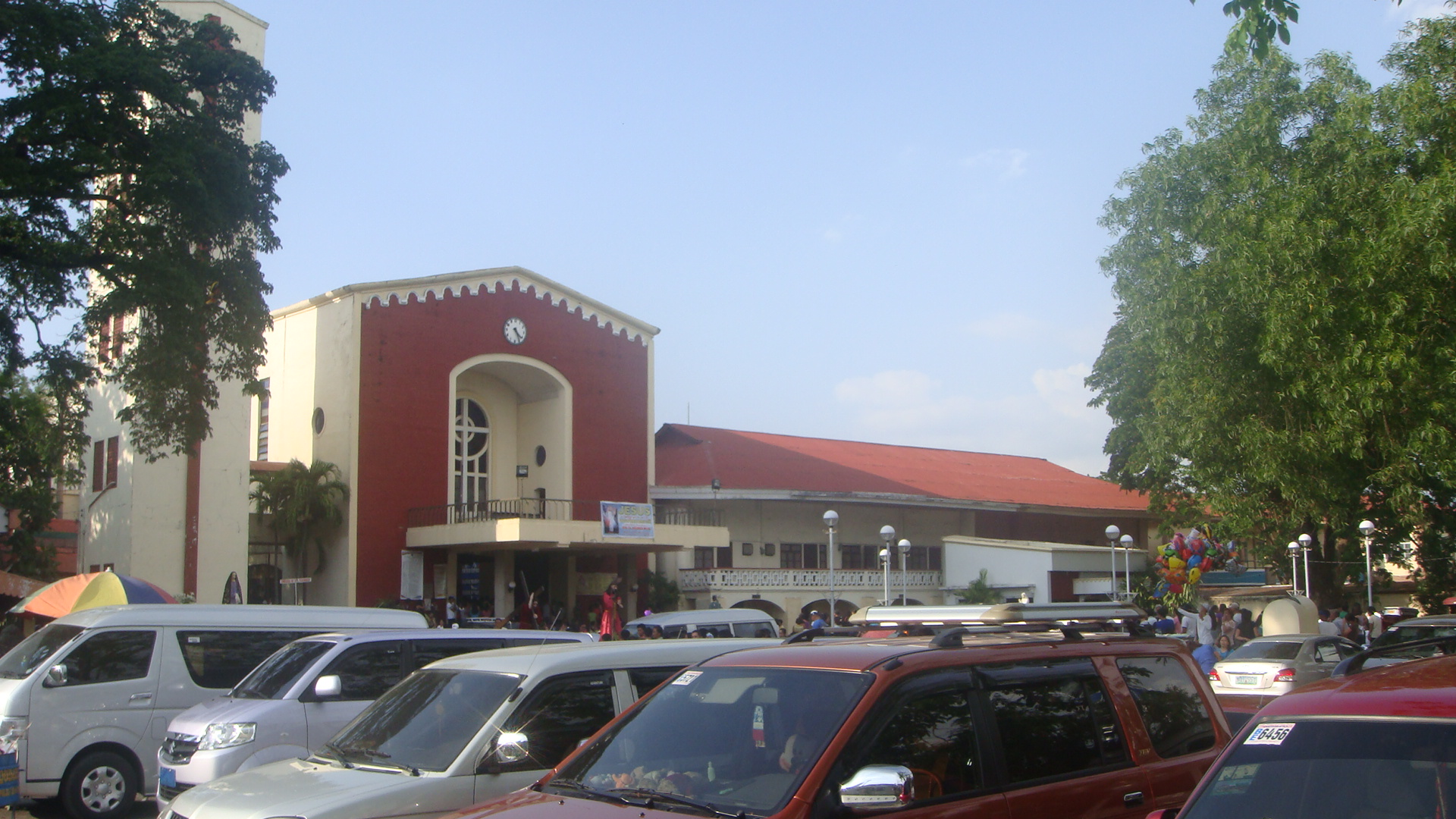 Vicariate of Sto. Tomas de Aquino, Parish of St. Thomas Aquinas (F-1600), Mangaldan, 2432 Pangasinan